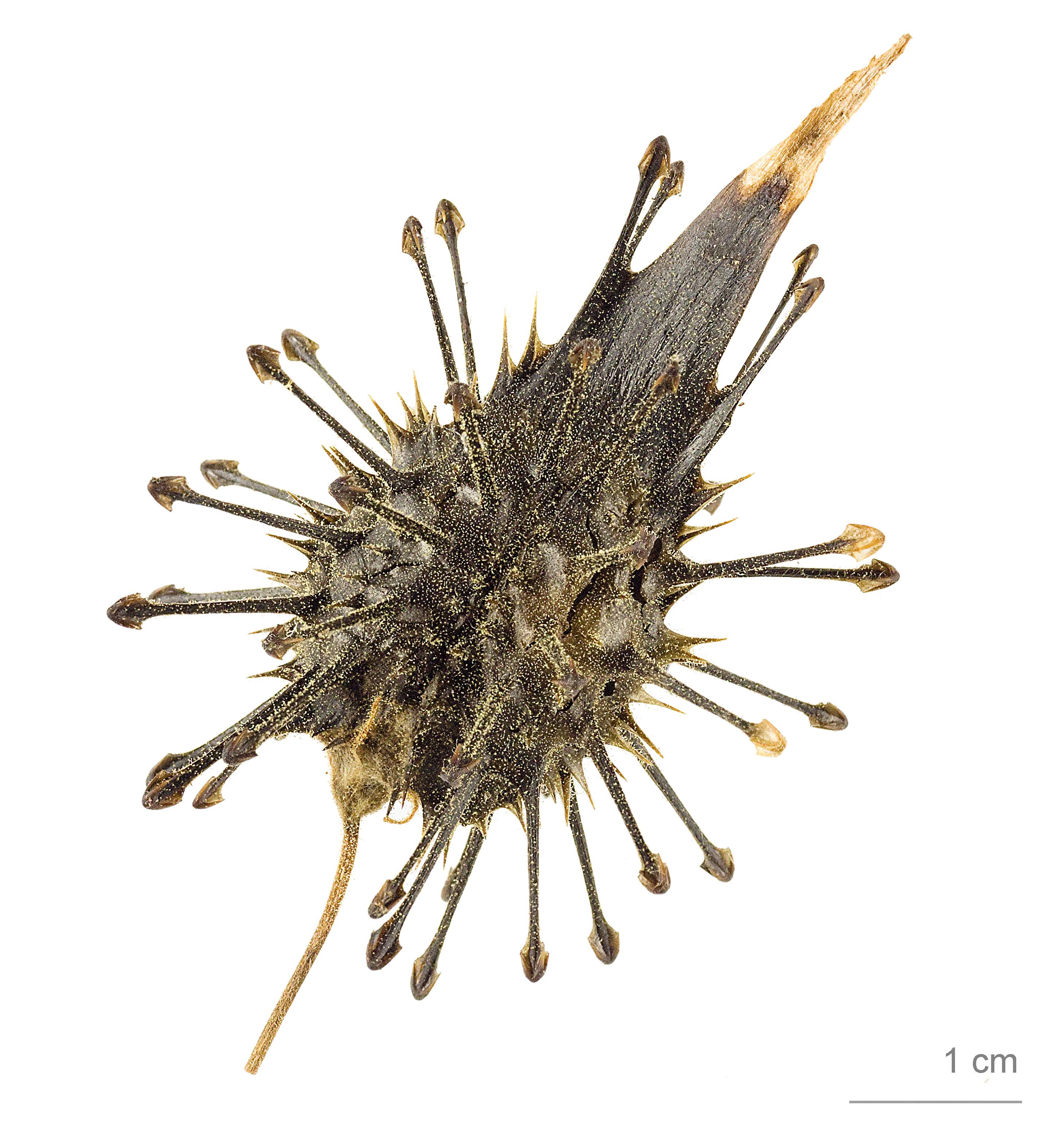 Uncarina grandidieri , fruits and seeds